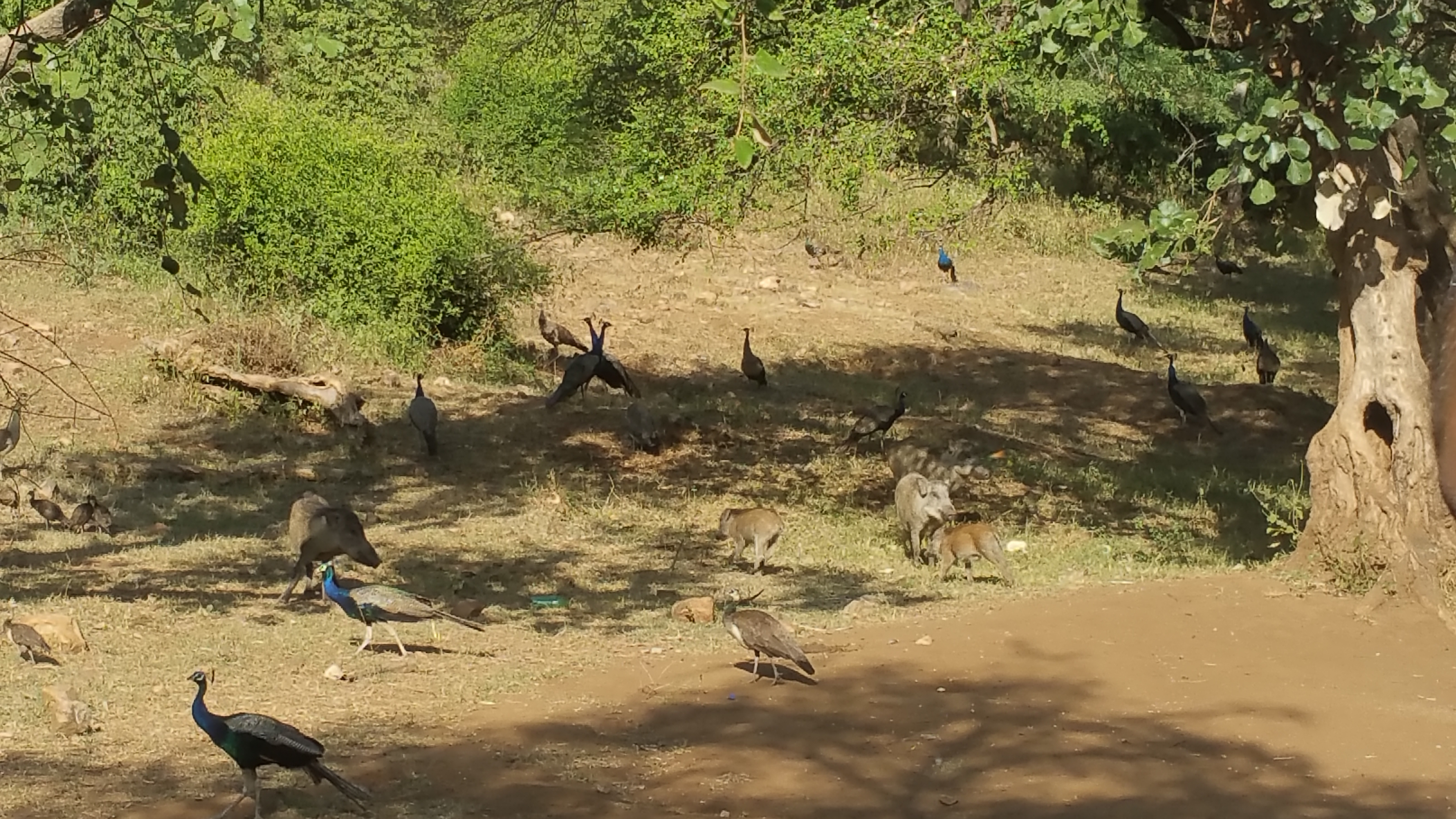 This image shows the co-existing species of fauna present at Sariska Tiger Reserve.